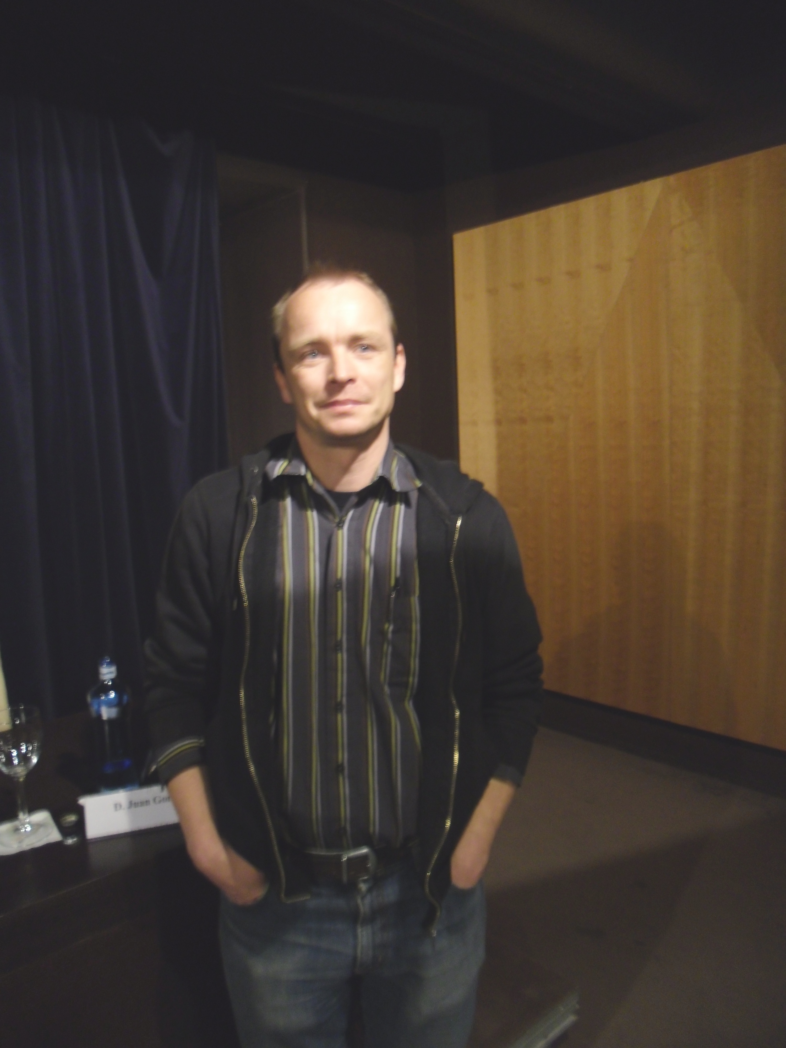 Peter Adolphsen, a Danish writer.